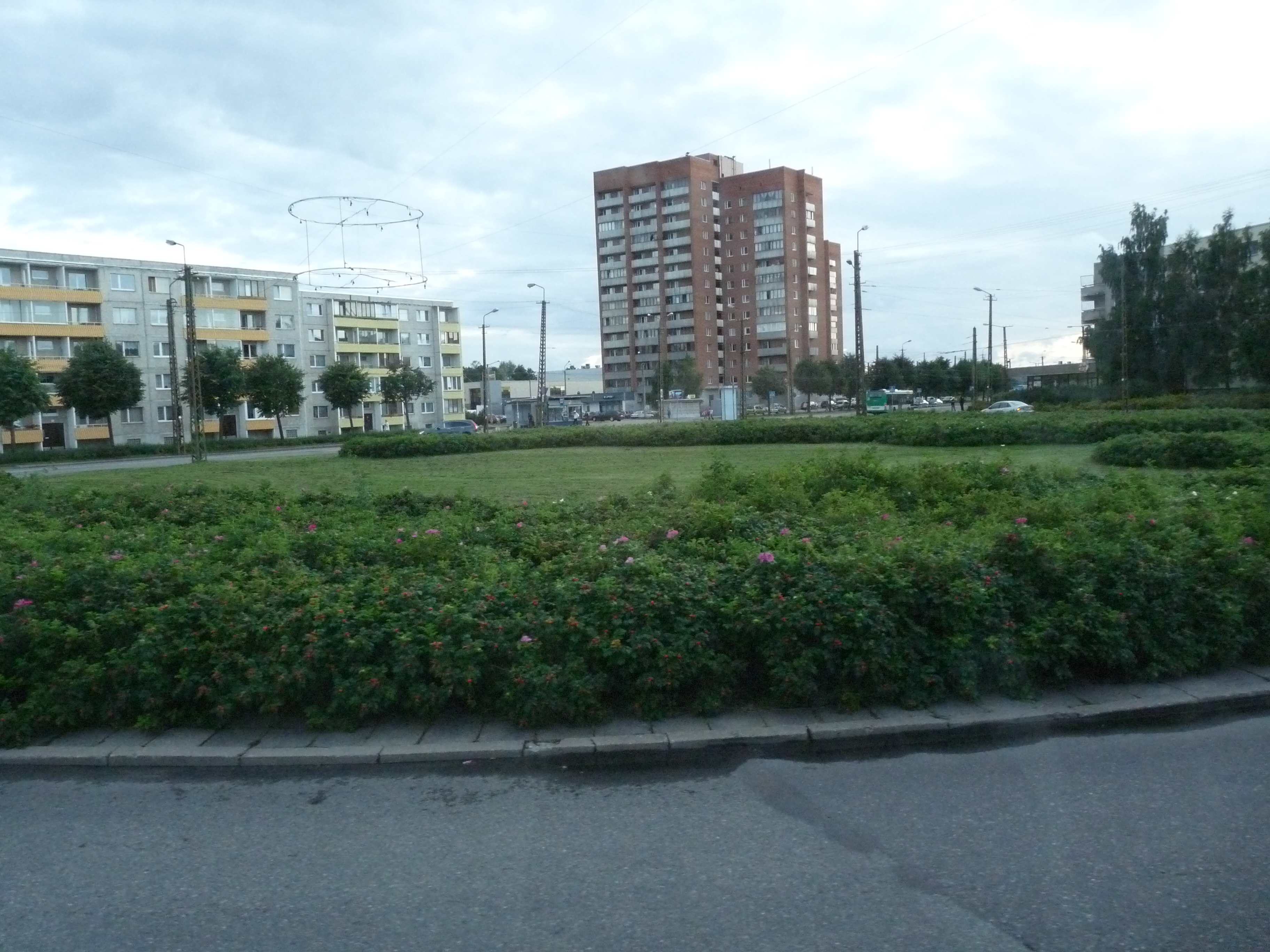 Väike-Õismäe near Harku lake in Haabersti, Tallinn